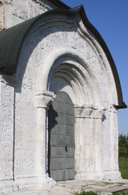 The porch of a church Svyatoslav built in Yuriev.